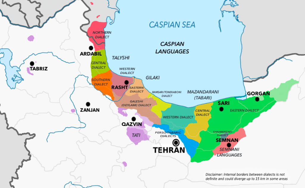 mutual intelligible dialects around Tehran , Gorgan , zanjan and Qazvin were not shown in this map